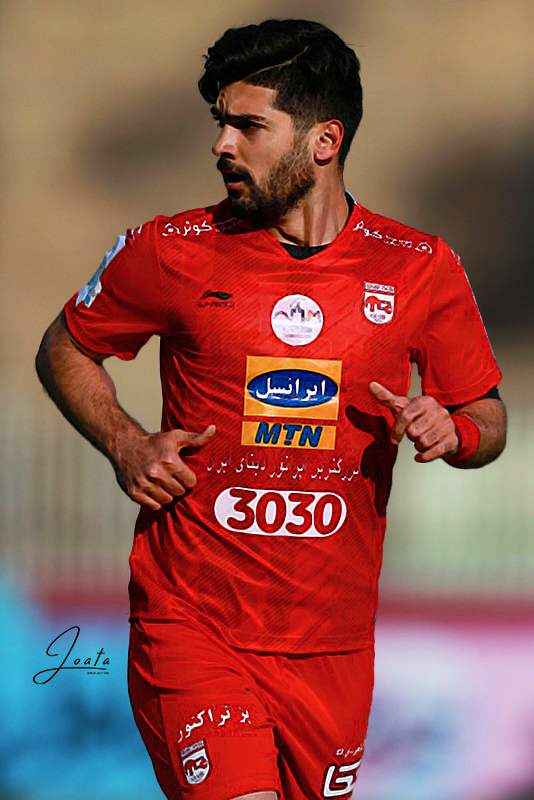 photographer by Ramin Joata